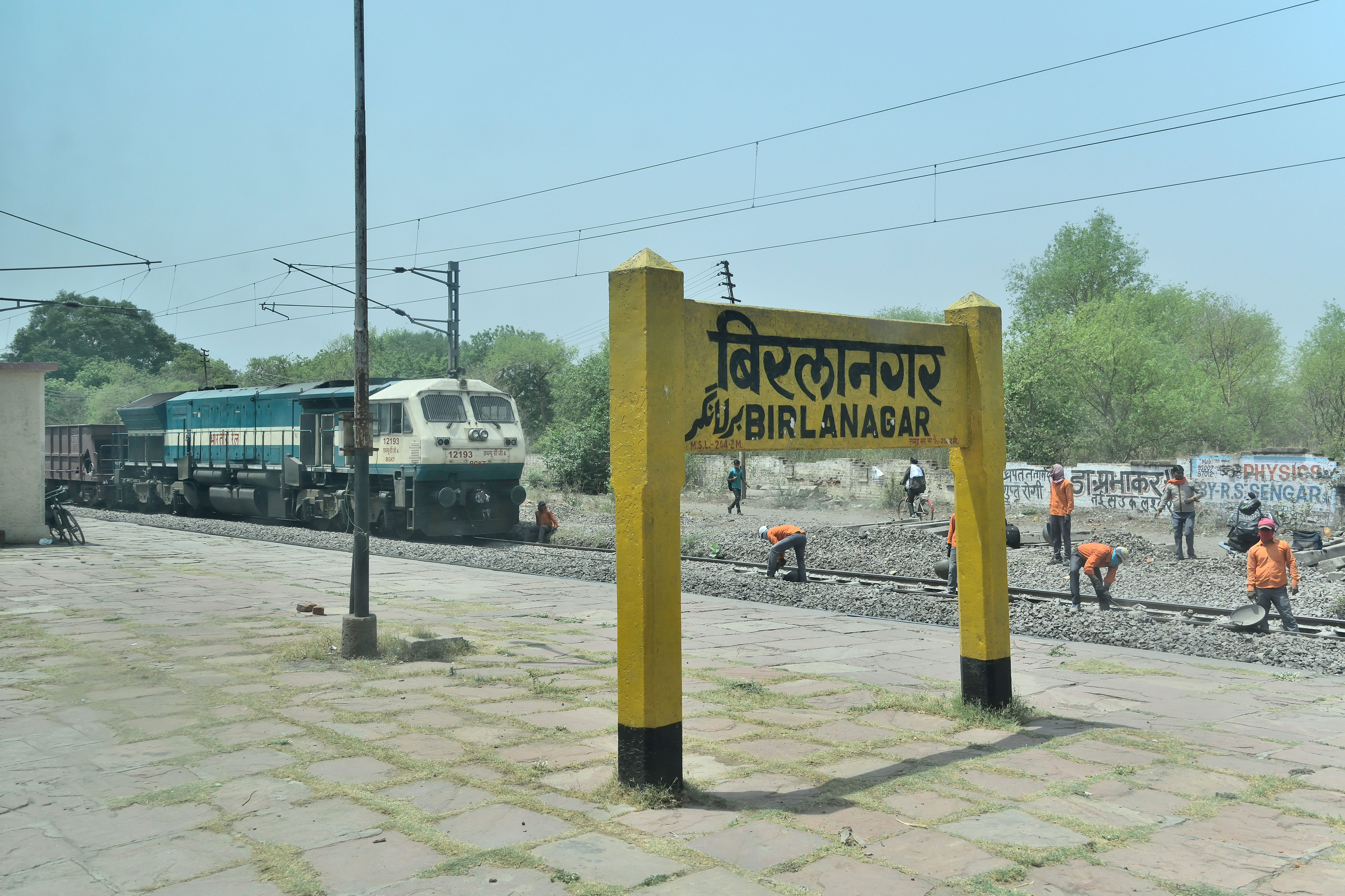 Name board of Birlanagar junction railway station